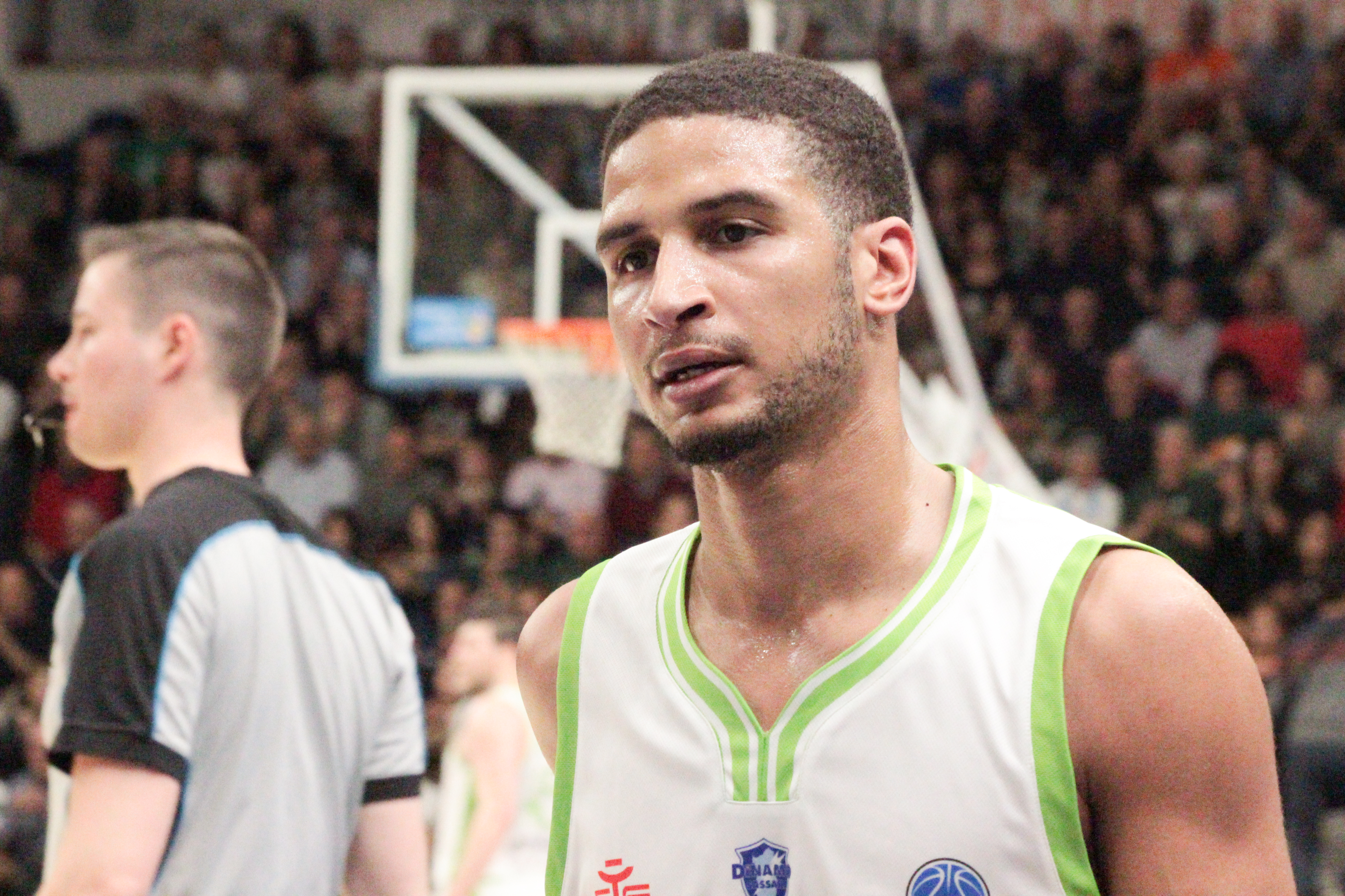 Basketball Player Jaime Smith in Dinamo Basket Sassari